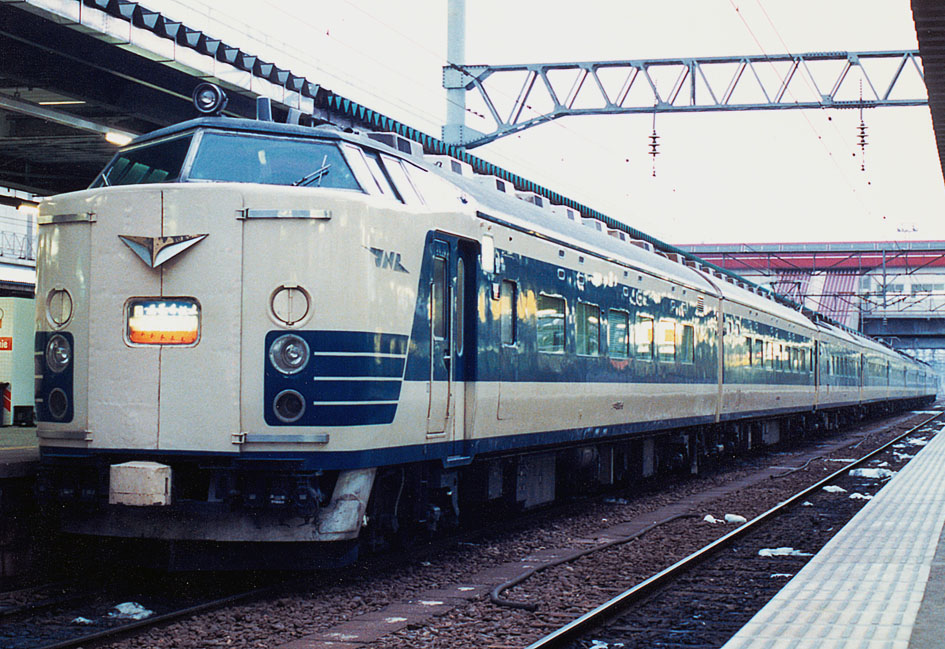 JNR 583 series EMU on a "Hatsukari" limited express service at Morioka Station